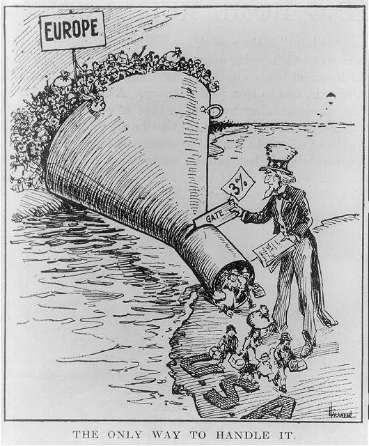 Political cartoon illustrating immigration to the US from Europe